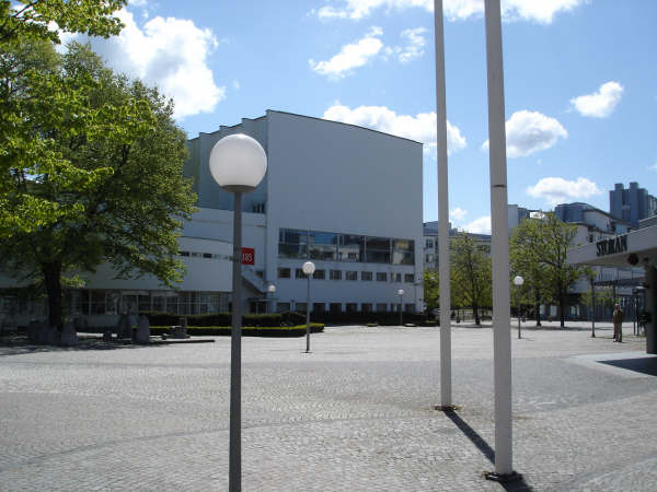 Helsingborg concert hall.